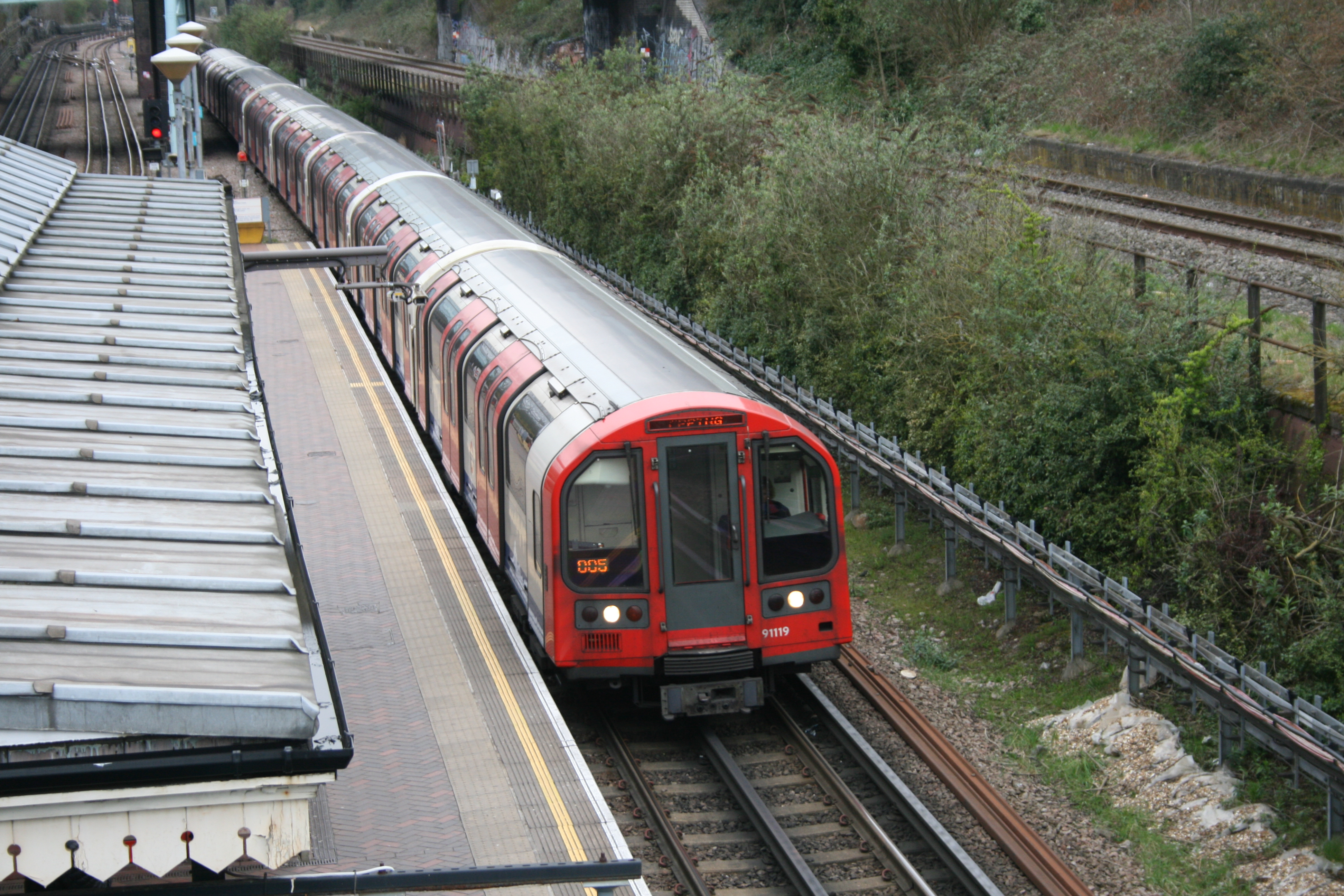 London Underground 1992 Stock 91119 on Central Line, North Acton